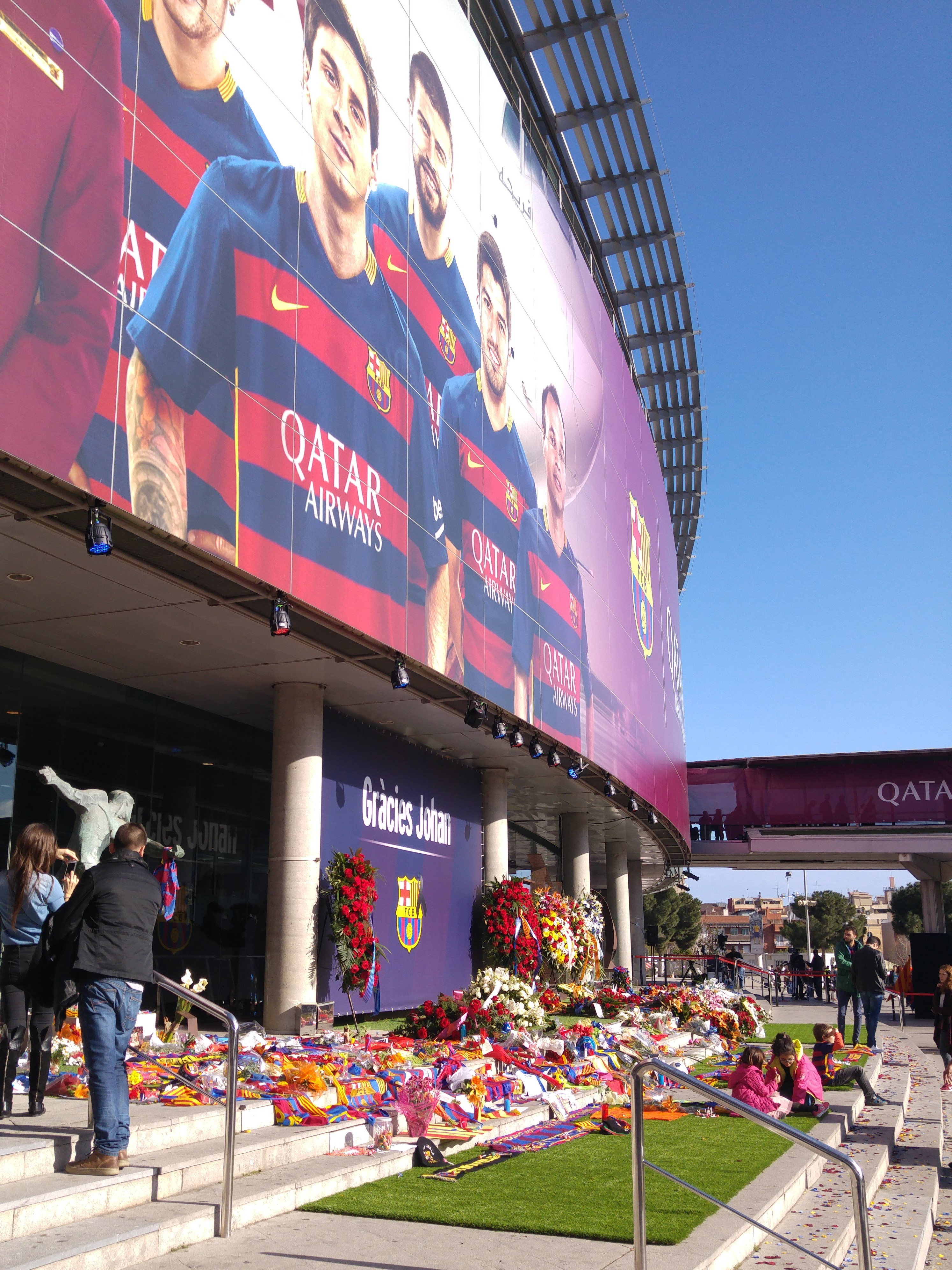 Johan Cruyff tribute in the Camp Nou stadium on March 26, 2016, Barcelona